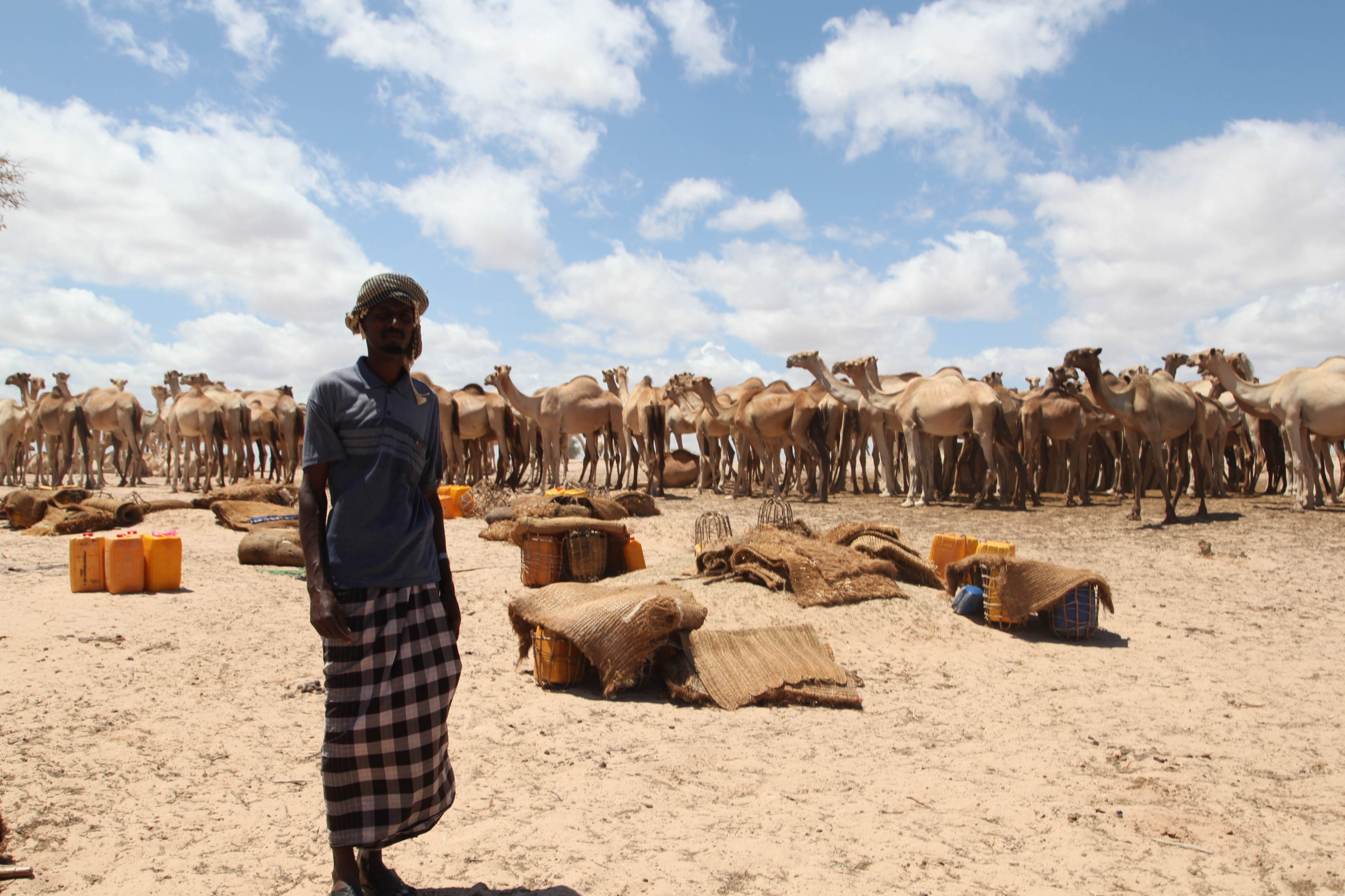 A Somali man stands in front of a group of camels in the town of Adale, Somalia. Burundian soldiers, as part of the African Union Mission in Somalia, yesterday liberated the town of Adale in the Middle Shabelle region of Somalia from the militant group Al Shabab. The town fell with no resistance on October 3. AMISOM Photo